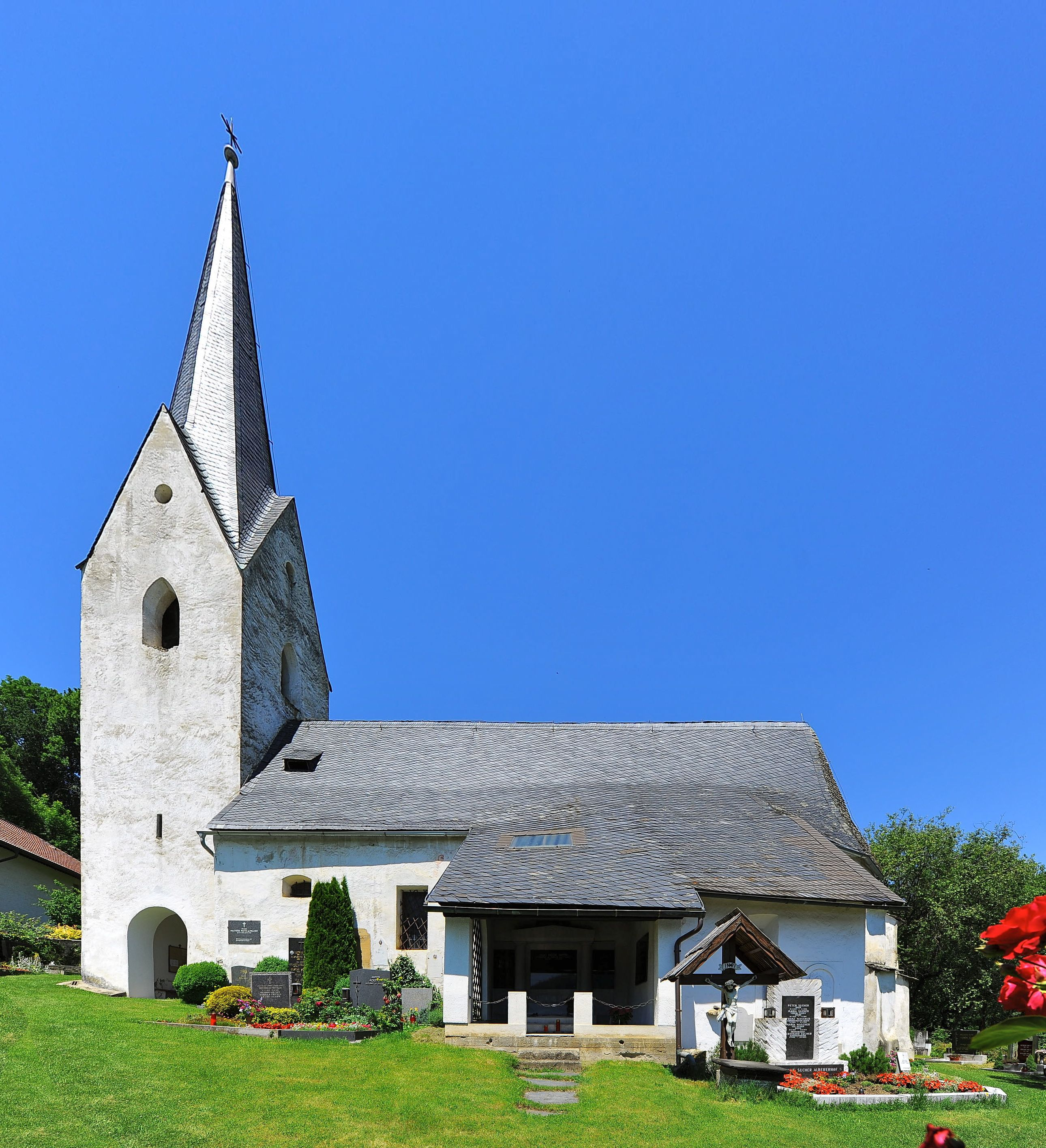 Subsidiary church Saint Bartholomew at Lebmach #122, municipality Liebenfels, district St. Veit an der Glan, Carinthia, Austria